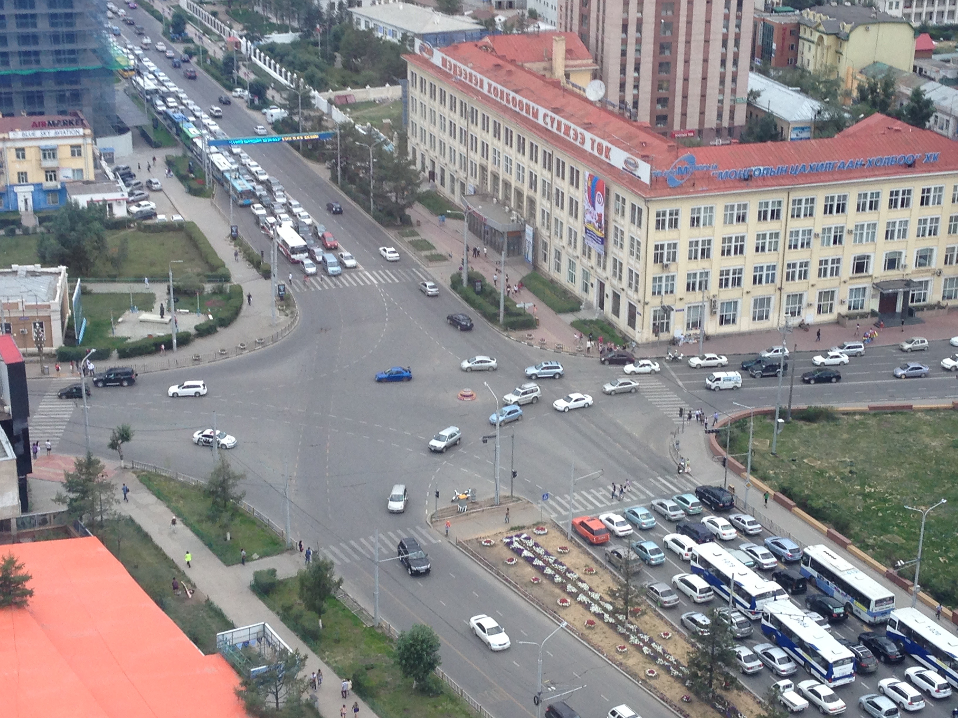 The intersection of Peace Avenue and Chinggis Khan Avenue in Ulanbaatar. The Stand in the middle is where a police officer would stand to direct traffic before traffic lights.